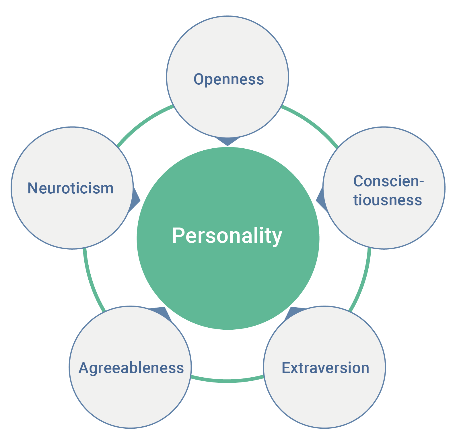 big five peats.de eng